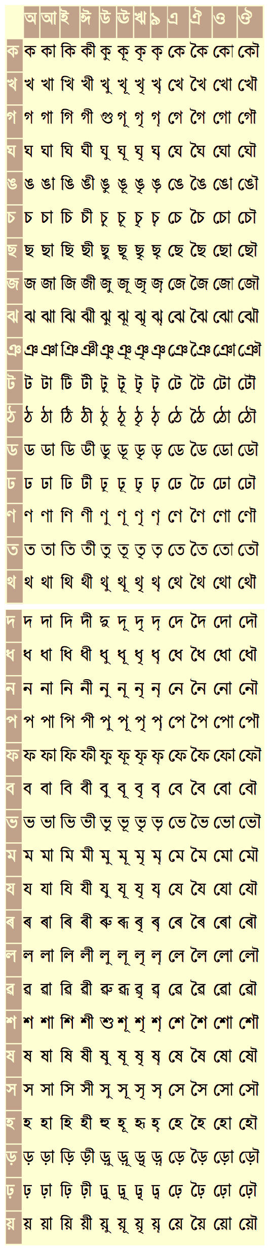 Asamiya vowel diacritics